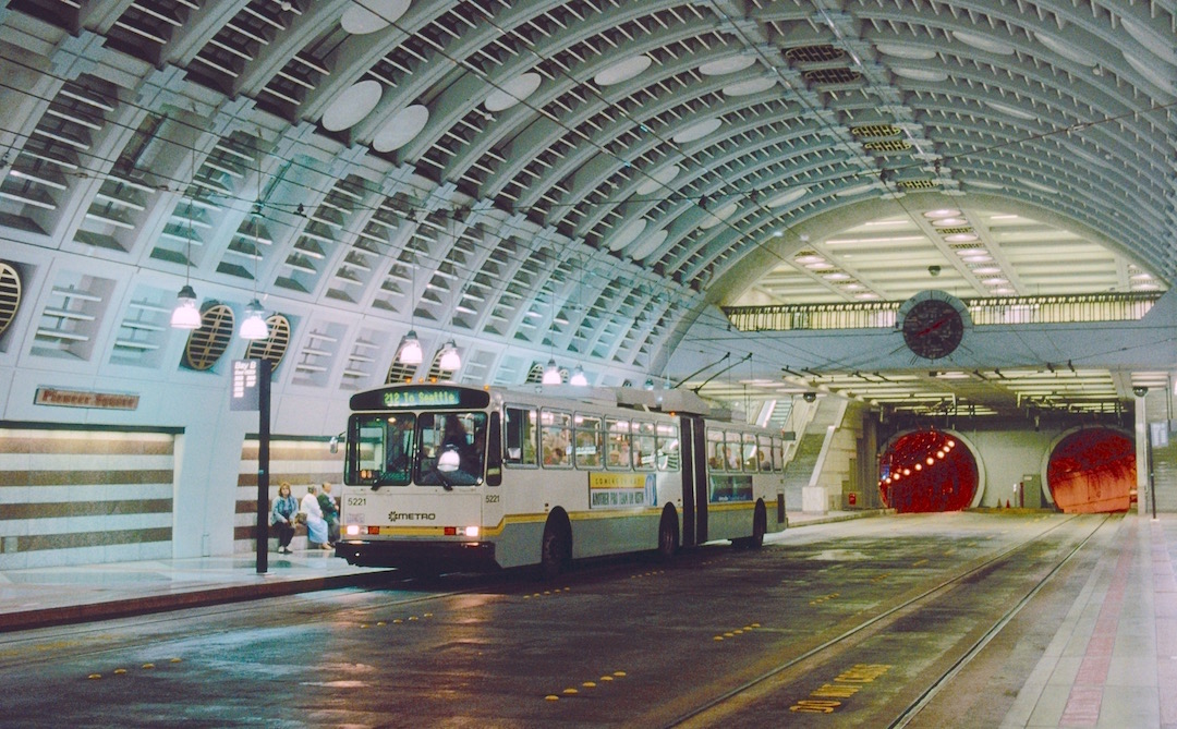 Breda-built dual-mode bus 5221, of Seattle's Metro Transit, northbound at Pioneer Square station in the Downtown Seattle Transit Tunnel, in 1994. No. 5221 was nearing the end of an inbound trip on route 212. The tracks visible here were laid during the tunnel's construction in 1987–89, for planned future use by light rail, but for a combination of reasons they were never brought into use, the roadway instead being torn up – and new tracks laid – during rebuilding of the tunnel and stations in 2005–07. (Note: Metro was not yet part of King County government at the time of this photo.)